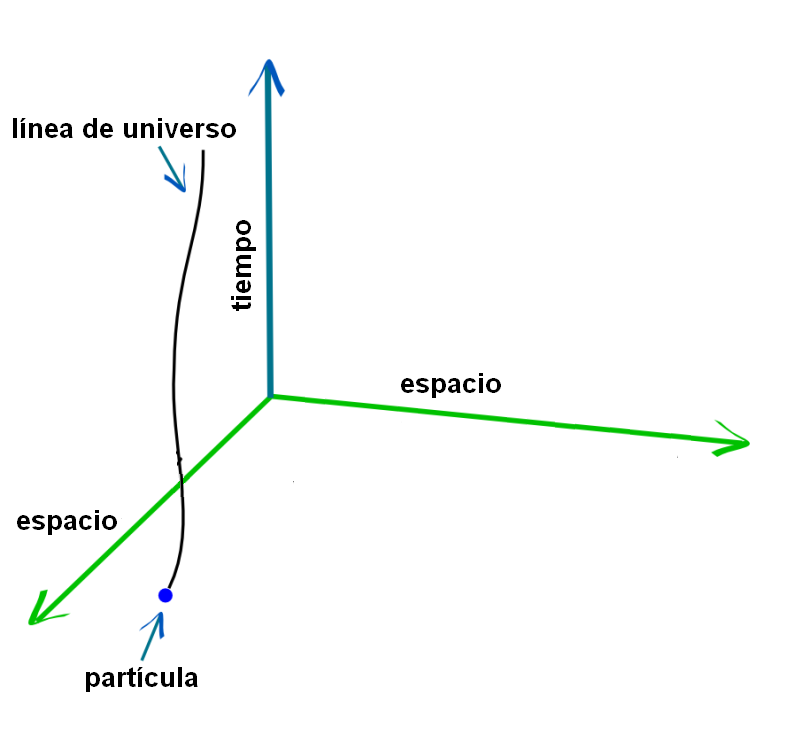 This is a translation of this image